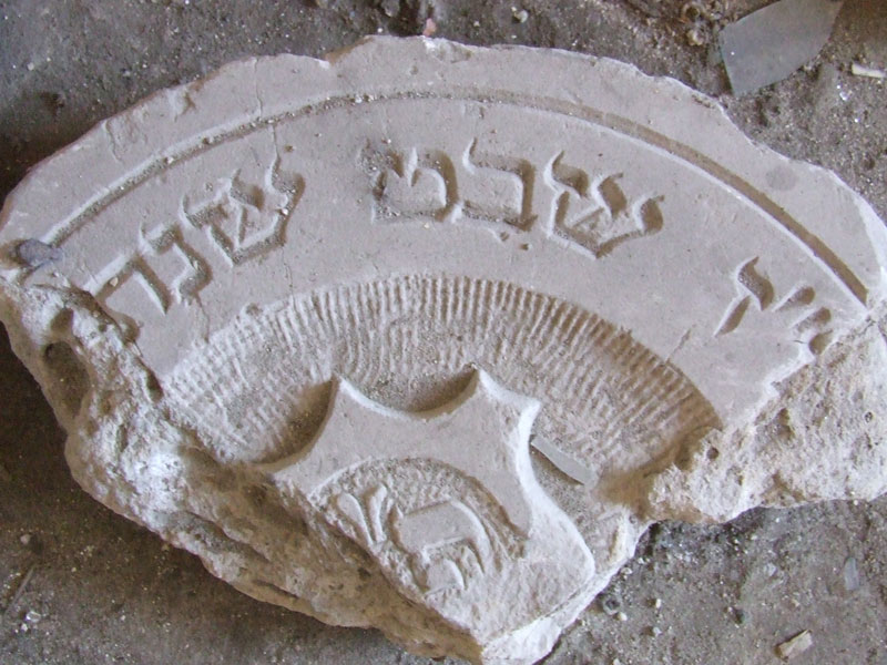 Synagogue in Bychawa